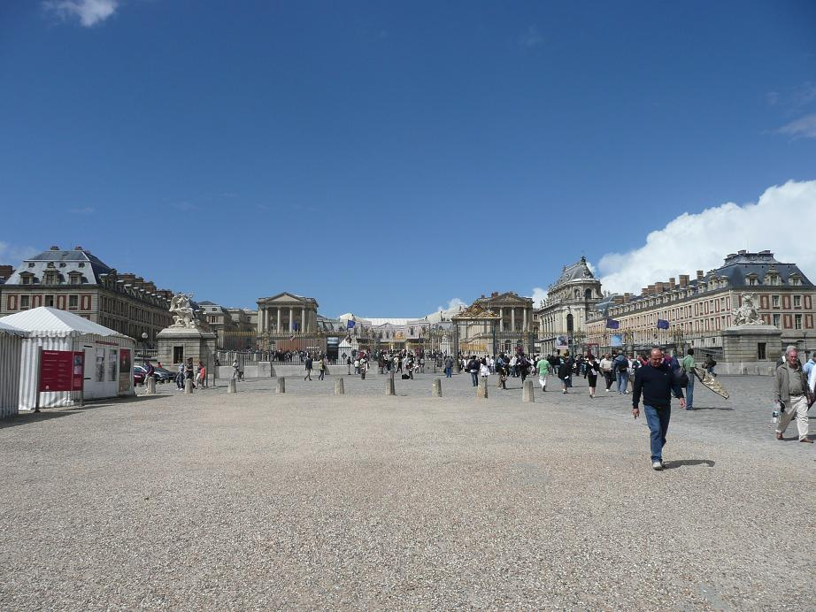 Palace of Versailles